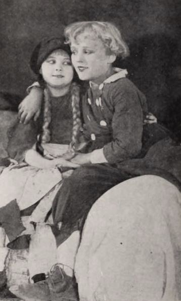 Still from the American fantasy film Rip Van Winkle (1921), on page 116 of the November 5, 1921 Exhibitors Herald.